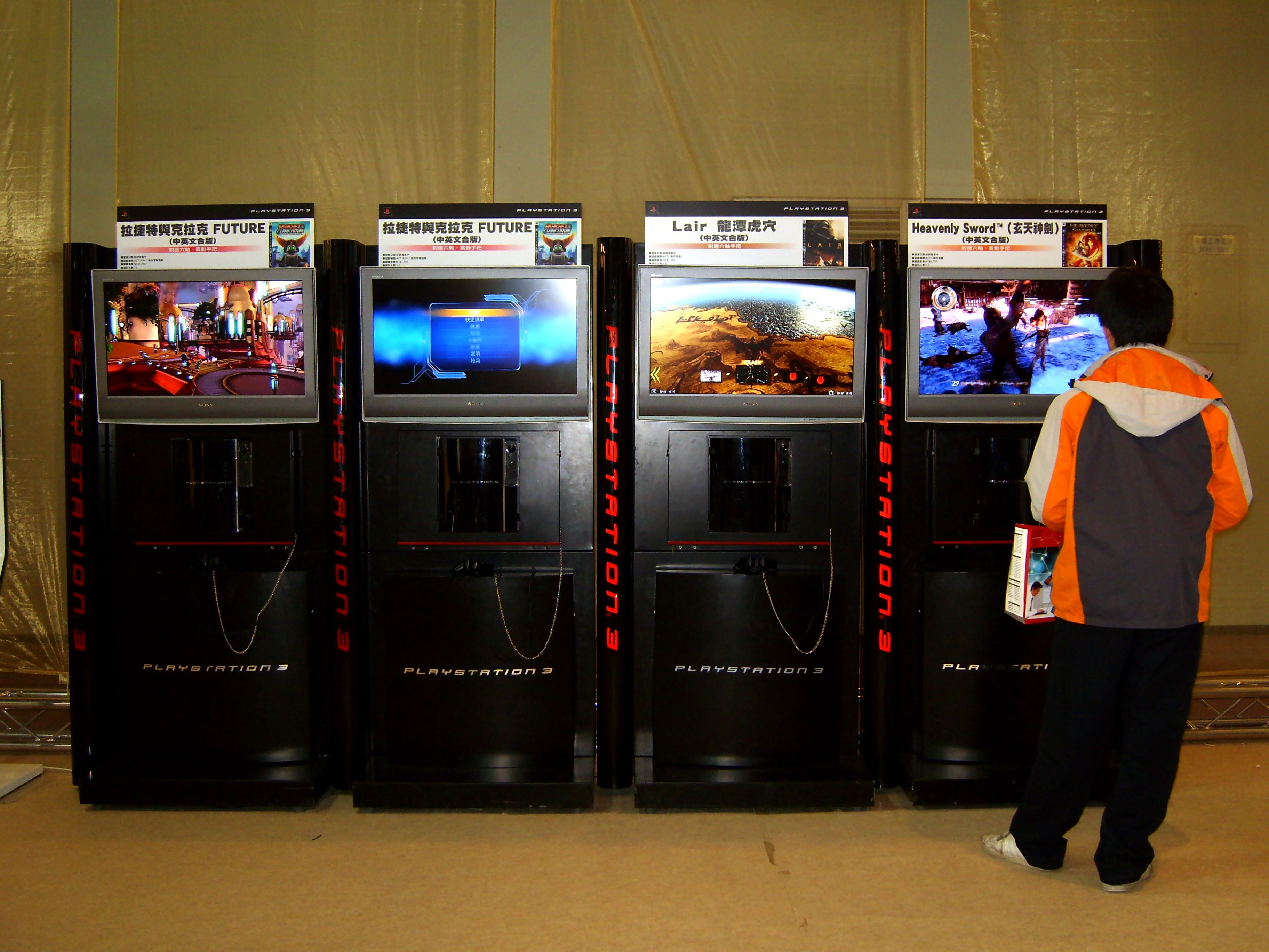 2007 Taipei IT Month - VIP Room: PlayStation 3 Gaming Area.